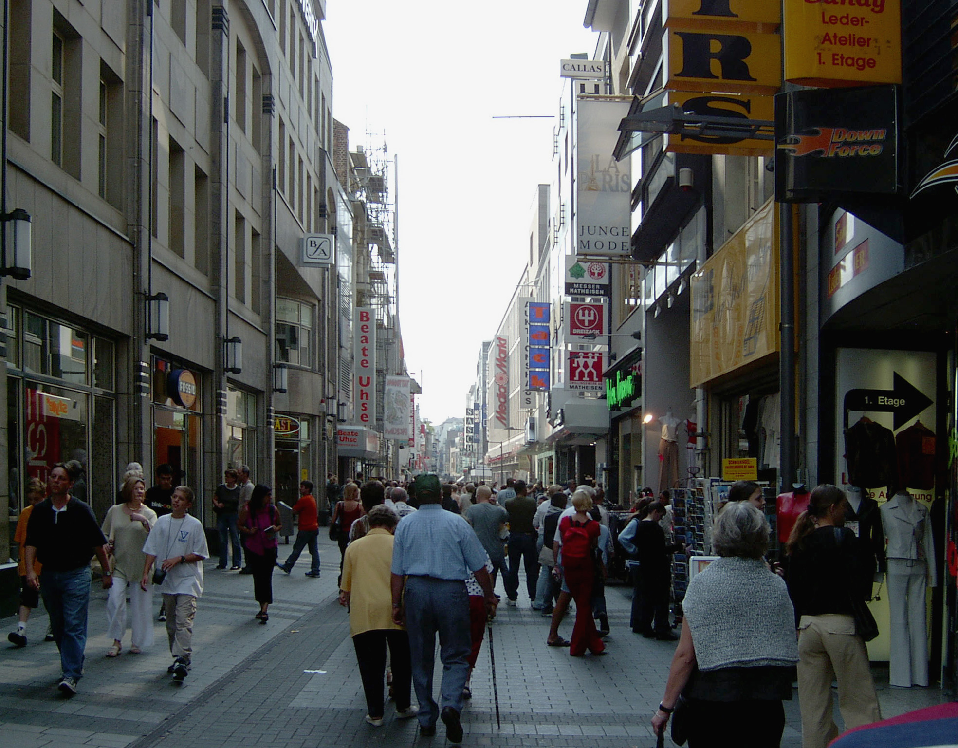 Hohe Straße, cologne, Germany.